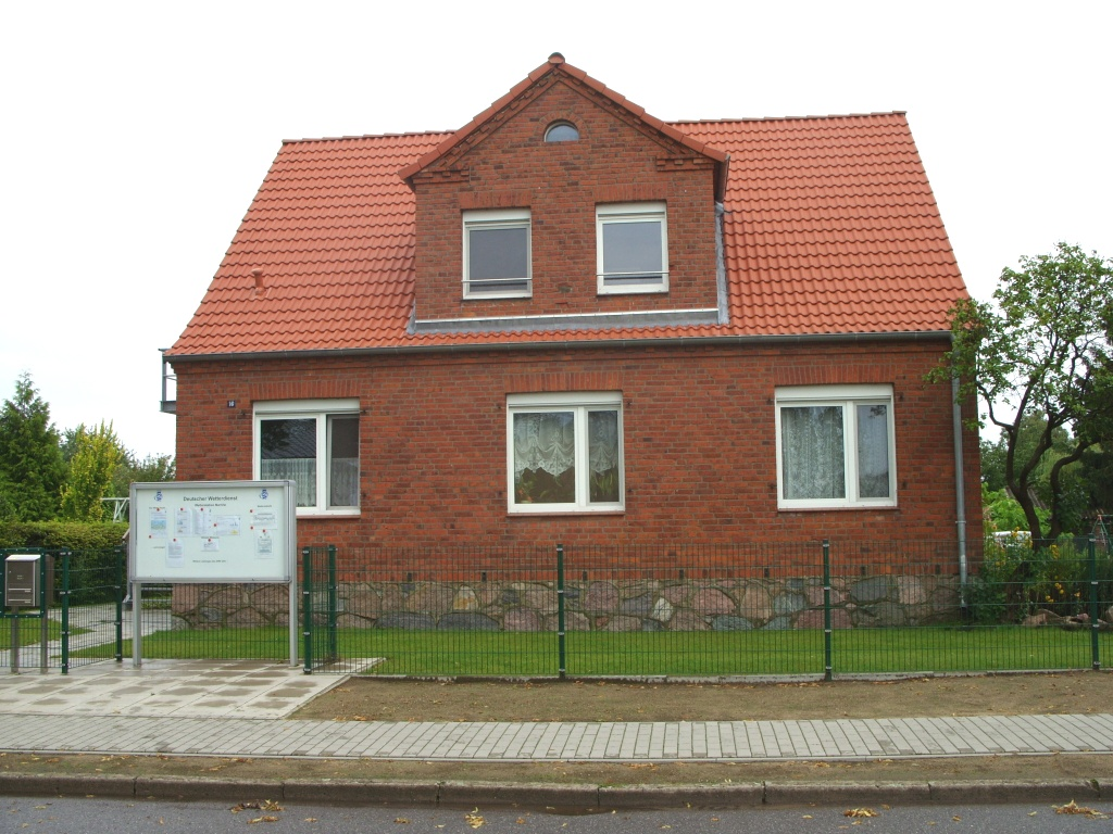 Weather station in Marnitz, Germany